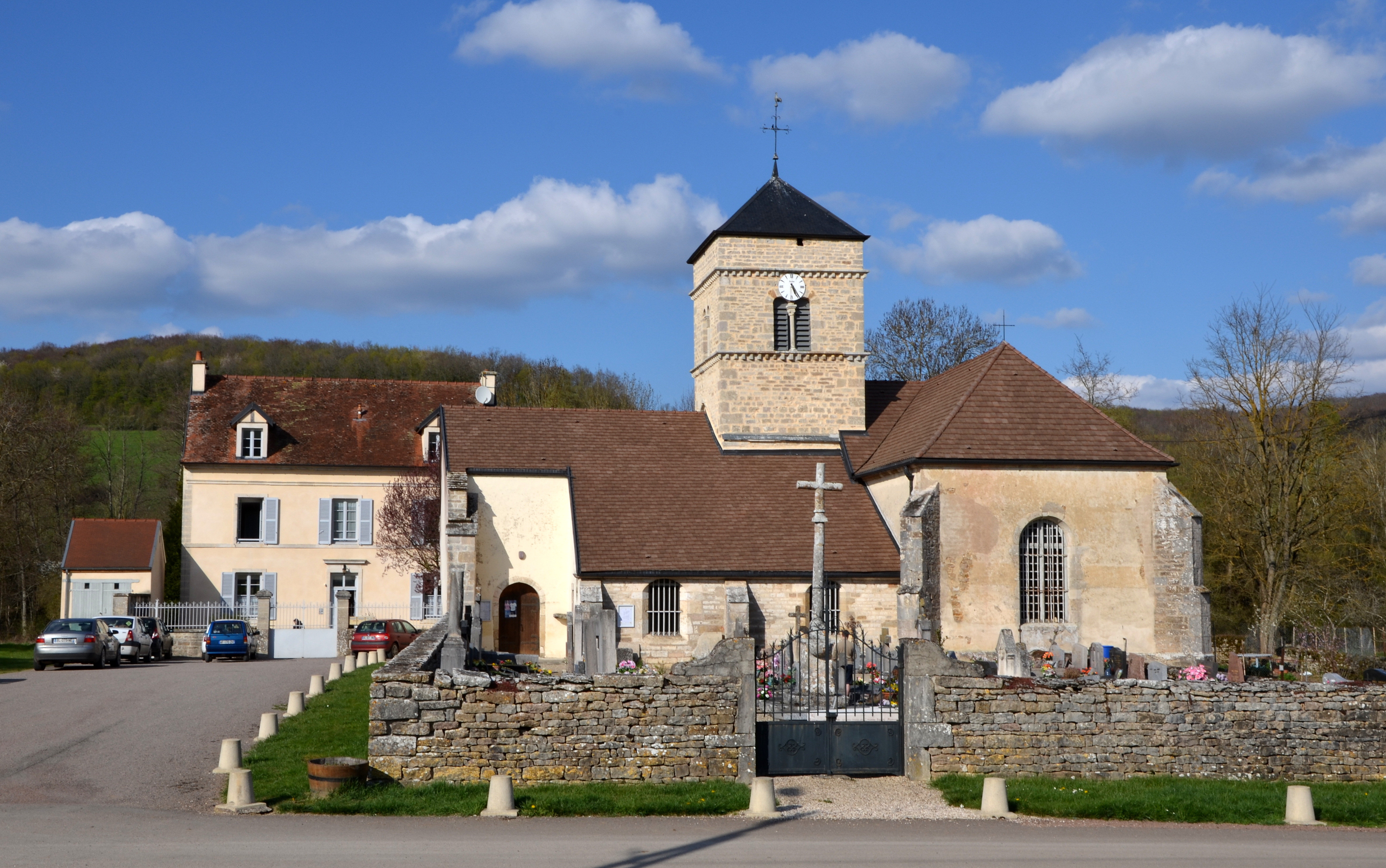 Church of Crugey , Côte d'Or, Bourgogne, France